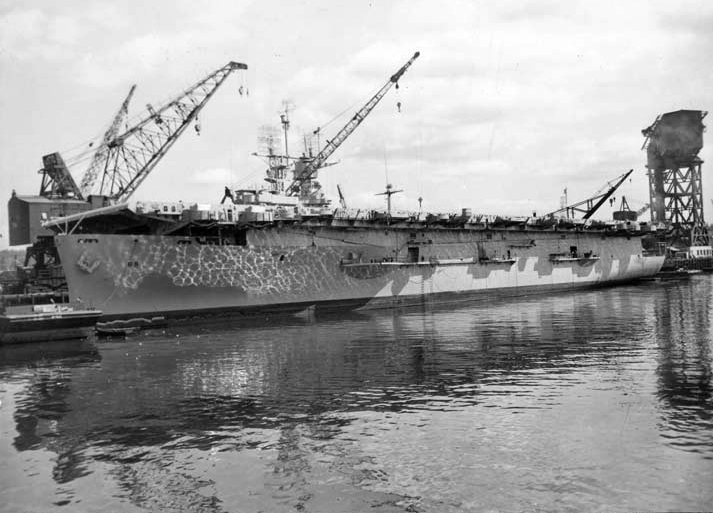 Port side view of USS Takanis Bay (CVE-89) at the time of an inclining experiment at the Puget Sound Naval Shipyard, 23 May 1946. An inclining test is performed on a ship to determine its stability and the coordinates of its center of gravity.